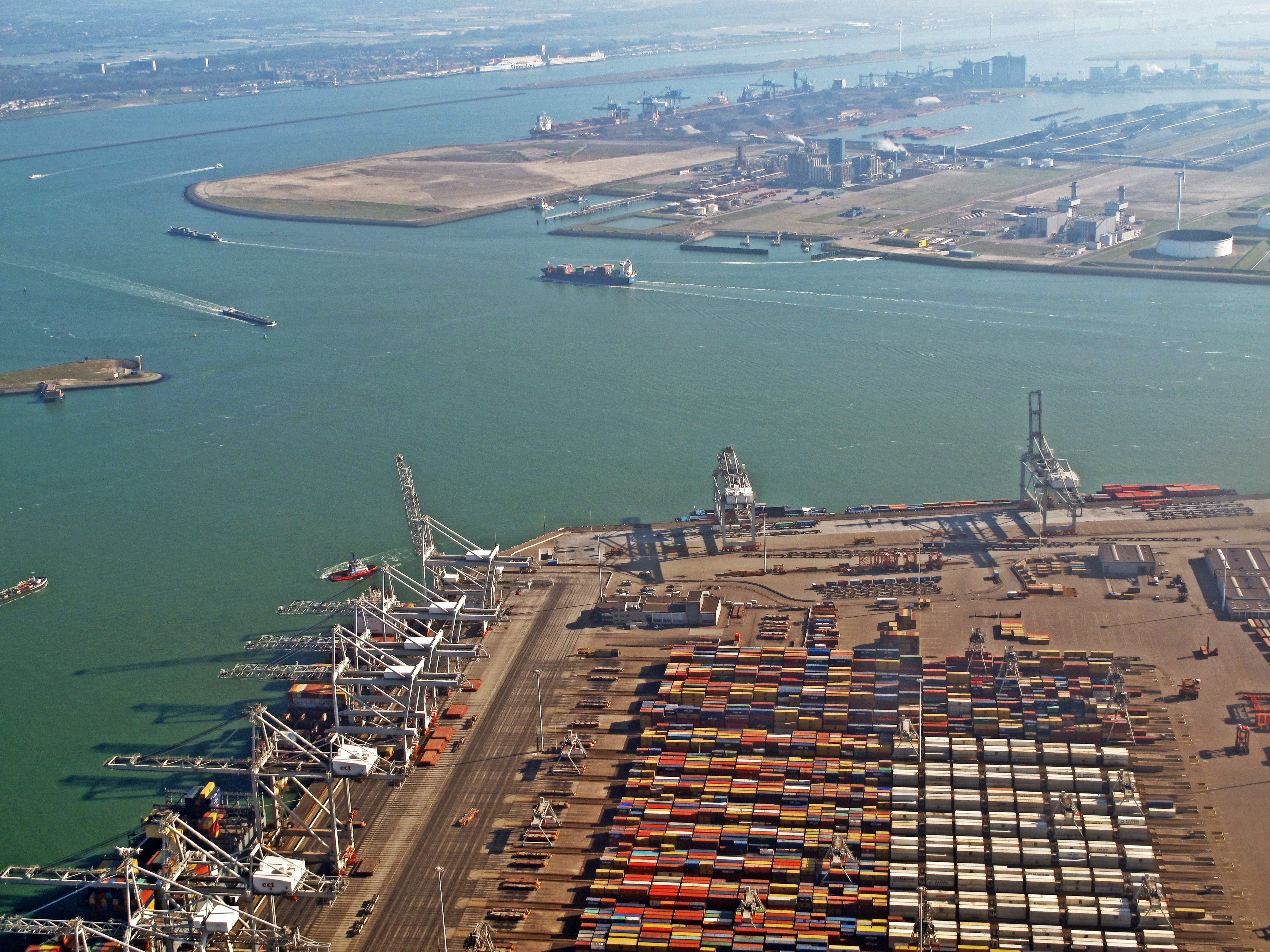 Maasvlakte, shipping containers